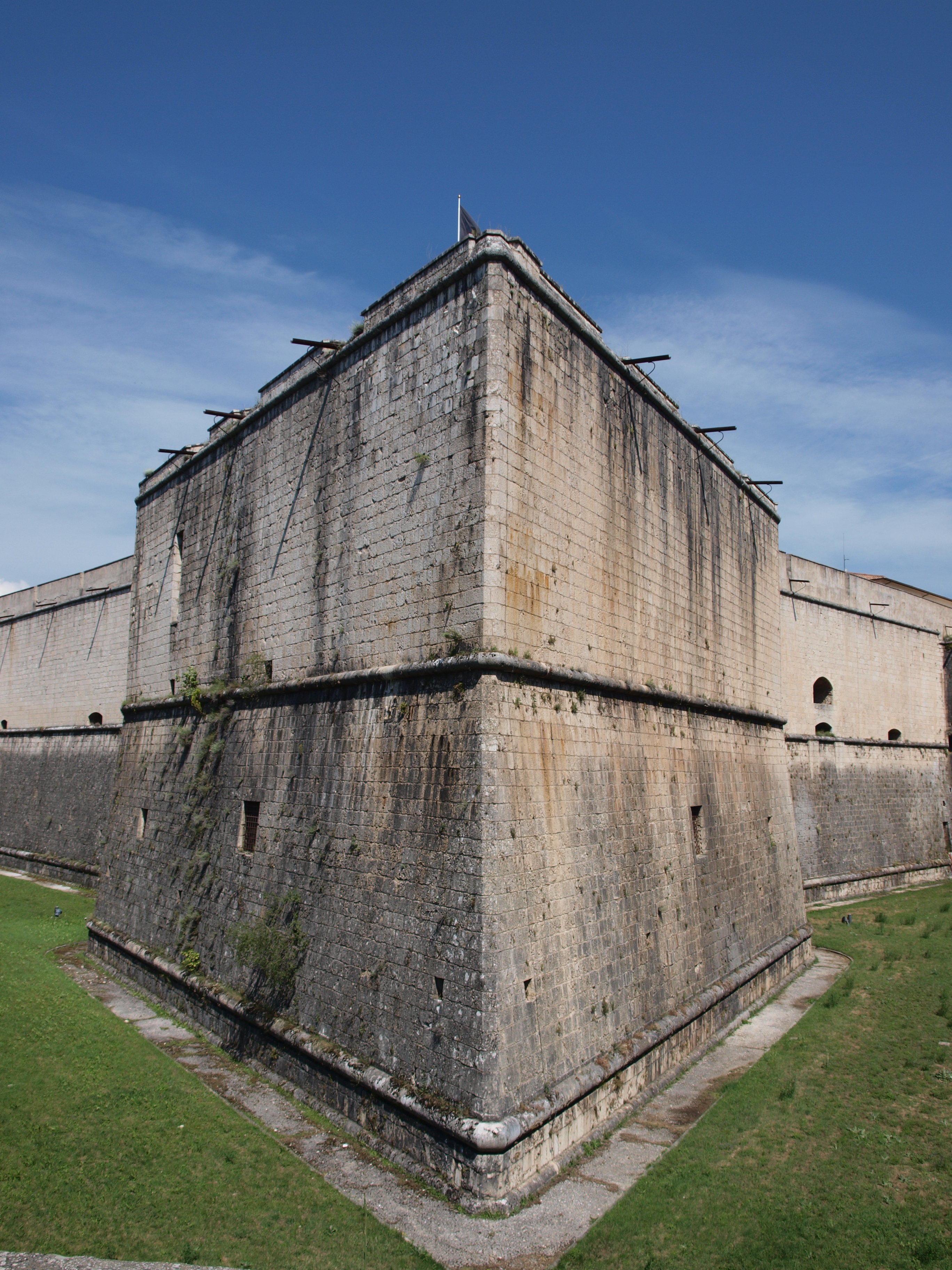 One of bastions of Spanish Fort (Forte Spagnolo) in L'Aquila (Italy)